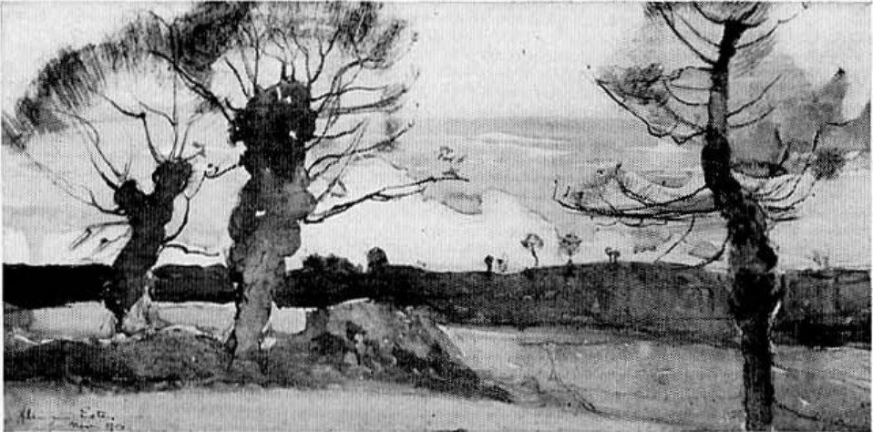 "November", trees in a field, by Florence Esté reprint of watercolor